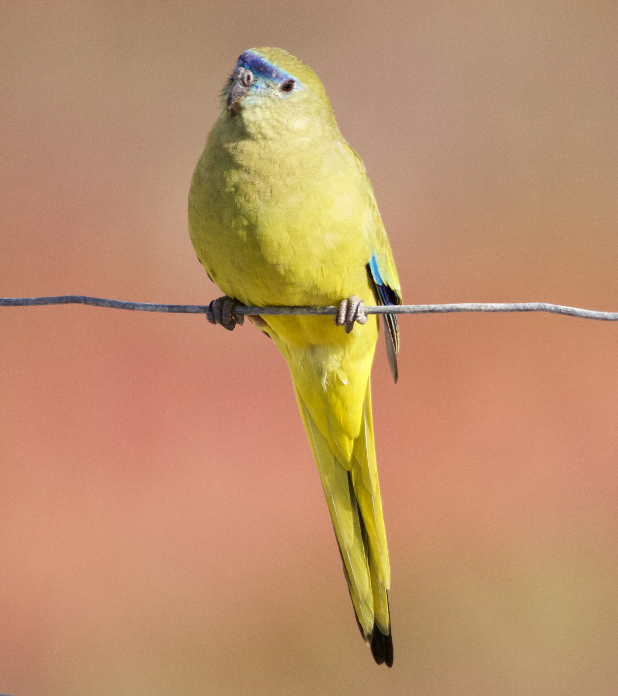 Port Lincoln, SA - Rock Parrot on fence wire (eastern subspecies)